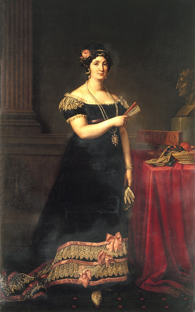 Alexandrine is dressed in the opulent dress seen in portraits of Napoléon's family in the early Empire period.